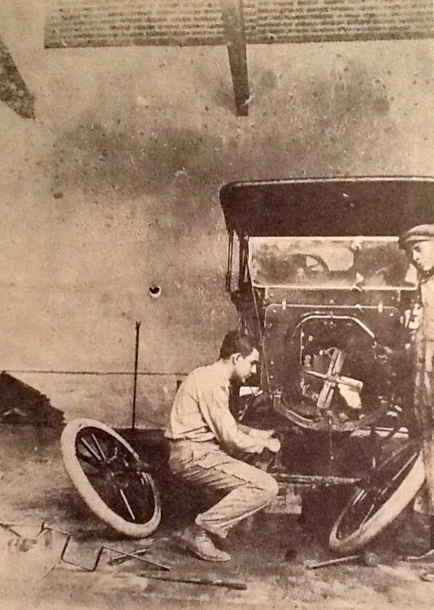 Edgar J. Anzola, pionero del automovilismo en #Venezuela, reparando un Ford modelo T en el Almacén Americano (1914) 📰 Guillermo José Schael, "El automóvil en Venezuela"